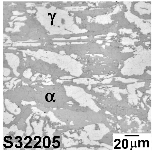 Microstructure picture of duplex stainless steel S32205, made by cropping File:Microstructures of four kinds of duplex stainless steel in each direction.jpg.